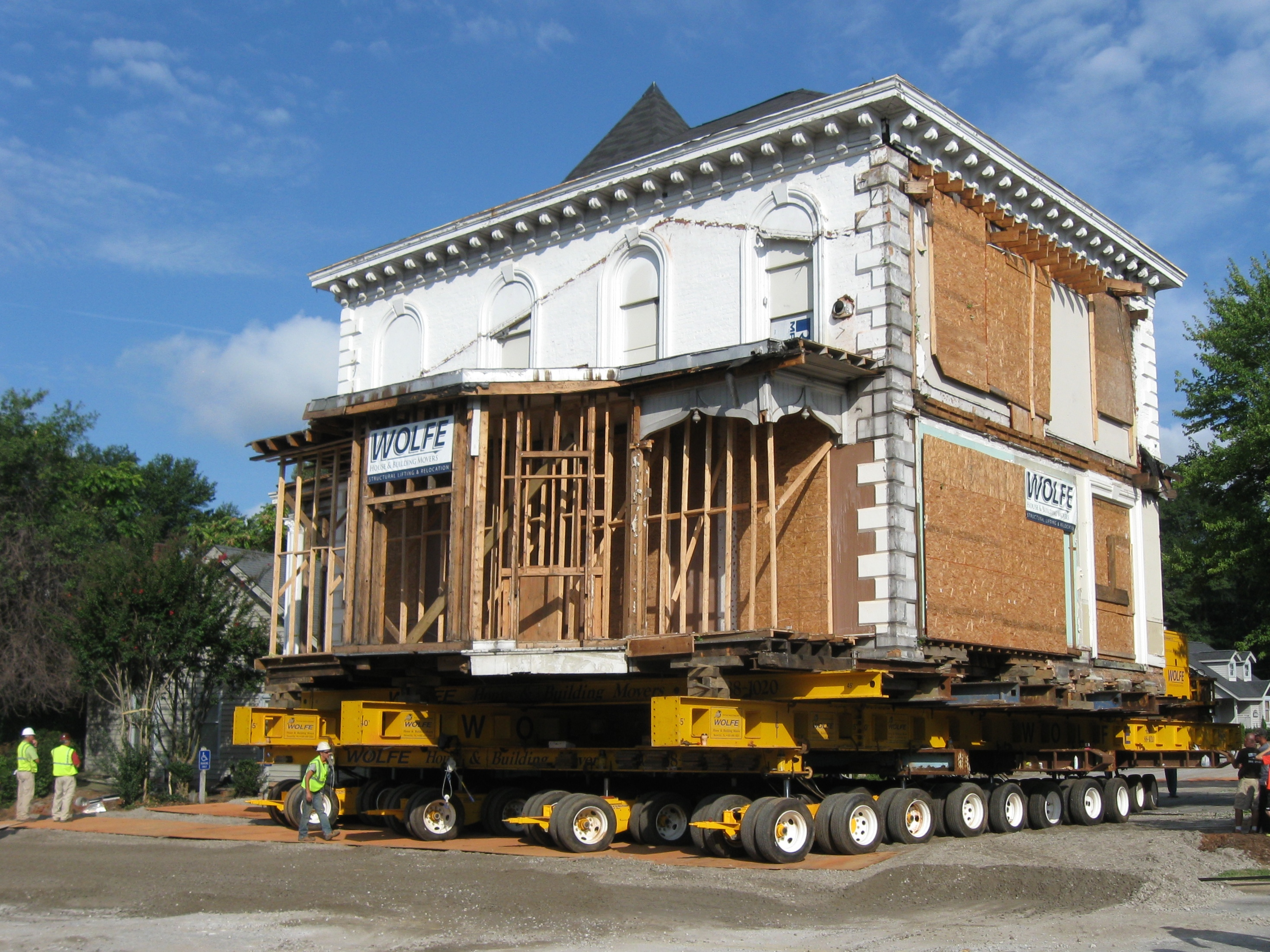 Wilkins House, Greenville, South Carolina, USA, being moved from Augusta Street to Mills Avenue, September 6, 2014